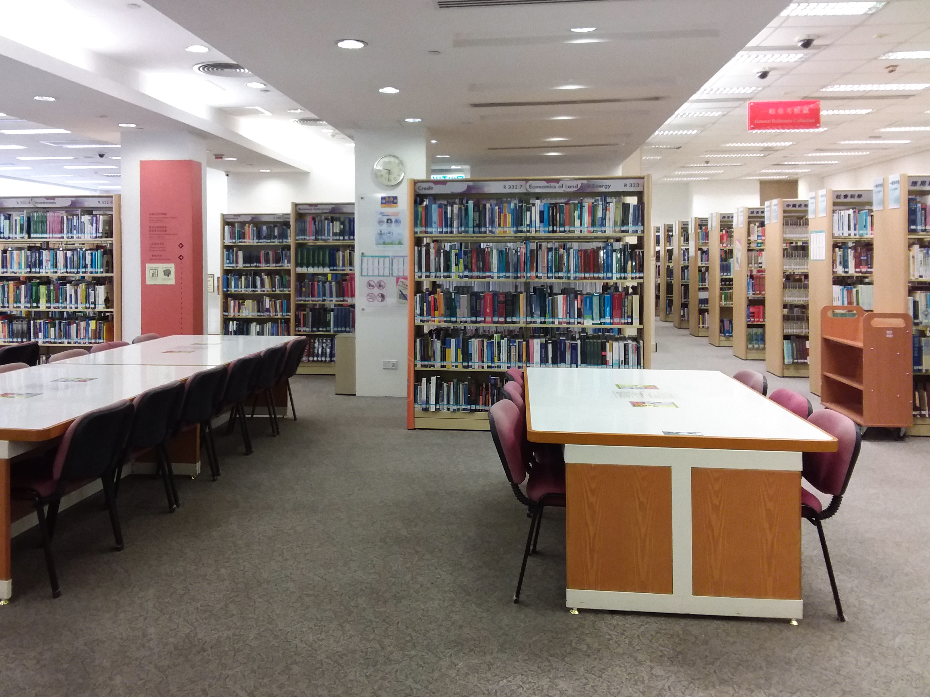 HK 中環 Central 大會堂 City Hall high block 10th floor Public Library interior January 2020